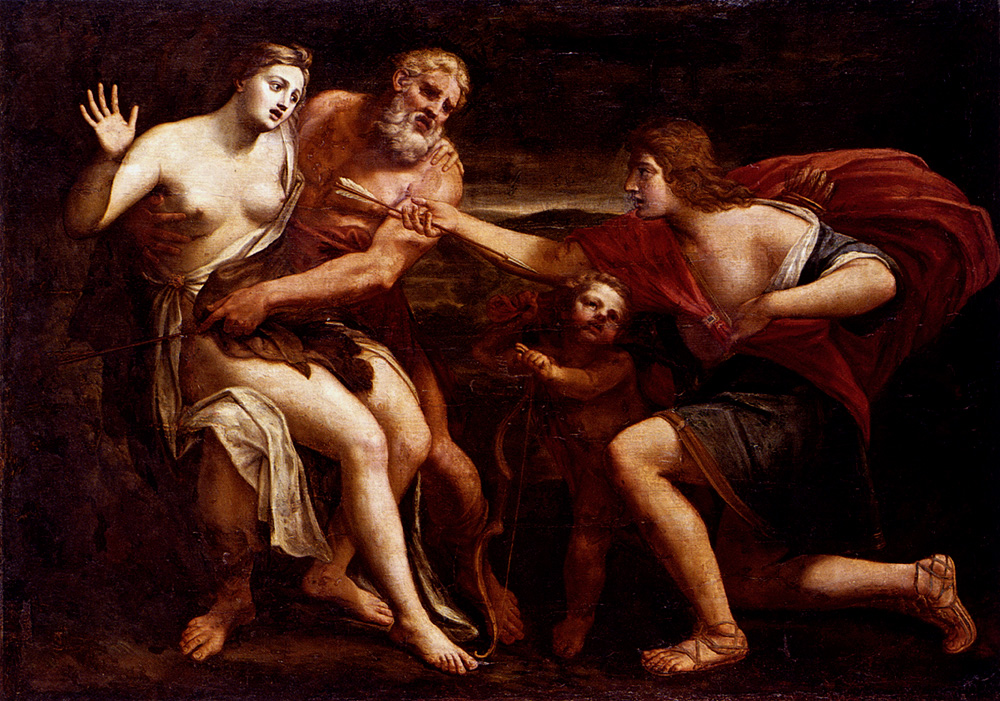 Cephalus and Procris